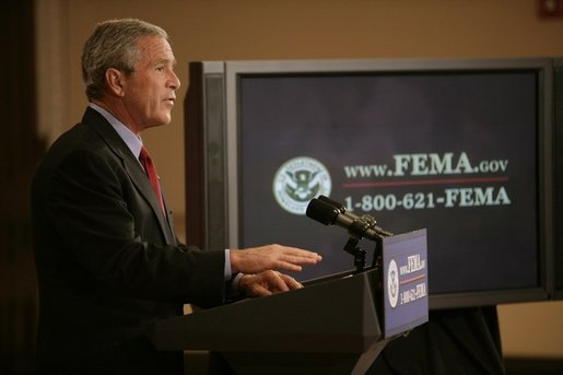 George W Bush outlining the further assistance of Hurricane Katrina victims on September 8, 2005